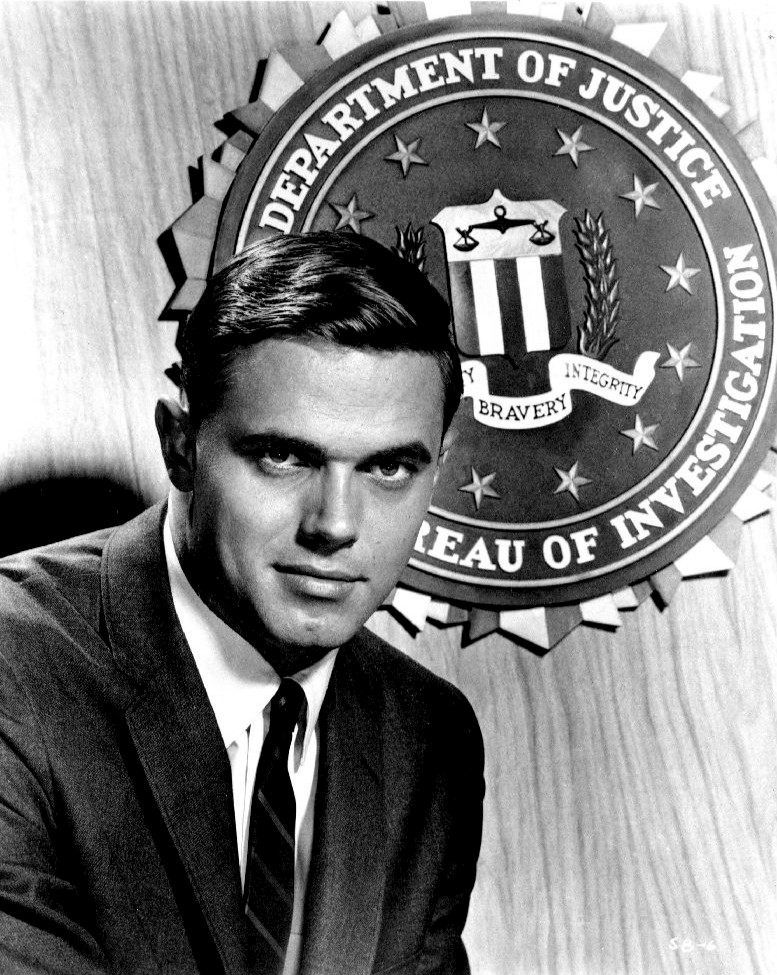 Photo of Stephen Brooks as agent Jim Rhodes from the television program The F.B.I..